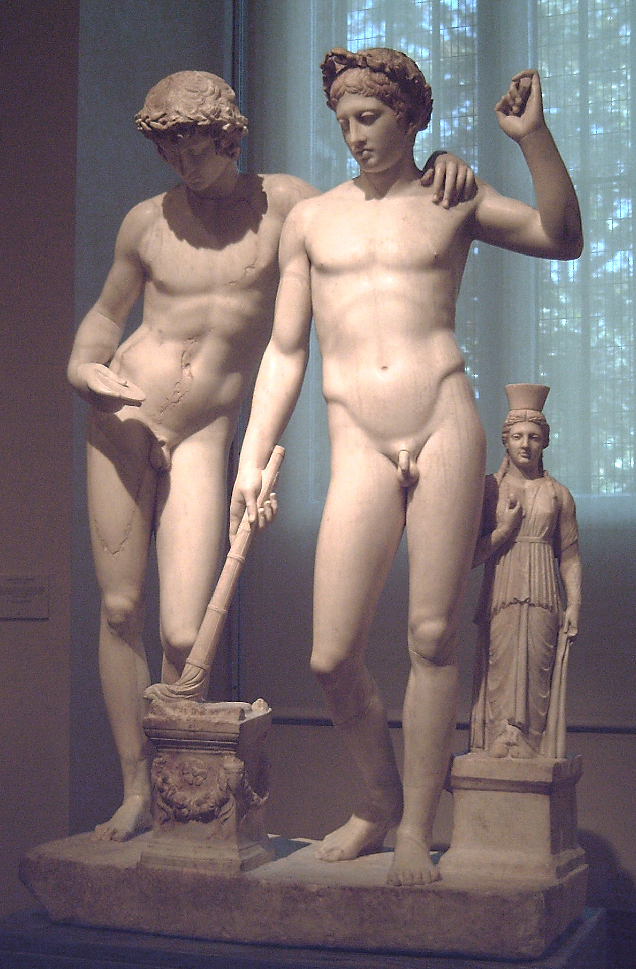 Roman sculptural group showing Castor and Pollux (or, according to other authors, Orestes and Pylades).